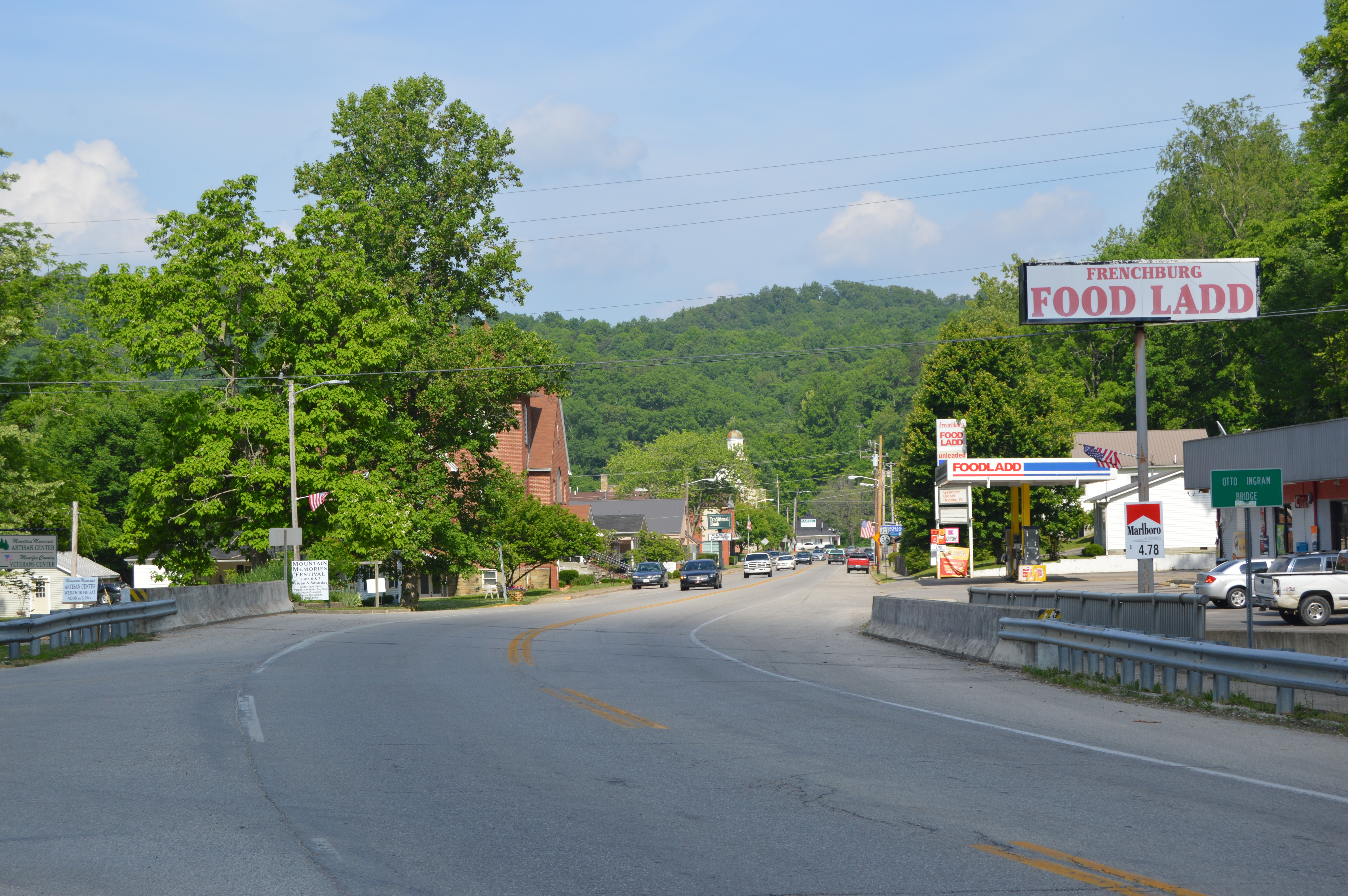 Looking eastward on Walnut Street (U.S. Route 460) toward downtown Frenchburg, Kentucky, United States.